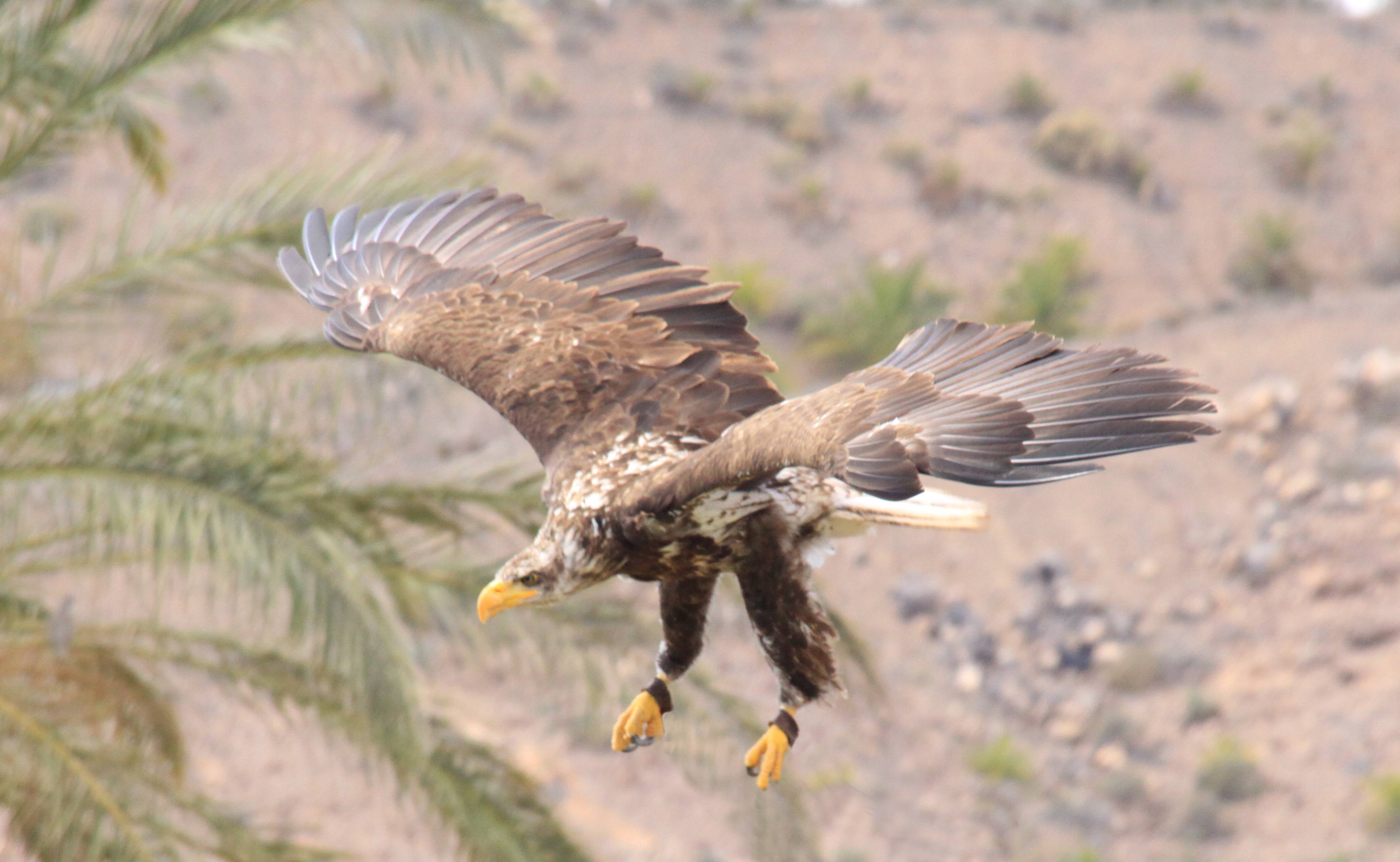 A Young bald eagle (still in juvenile plumage) part of the birds of prey display